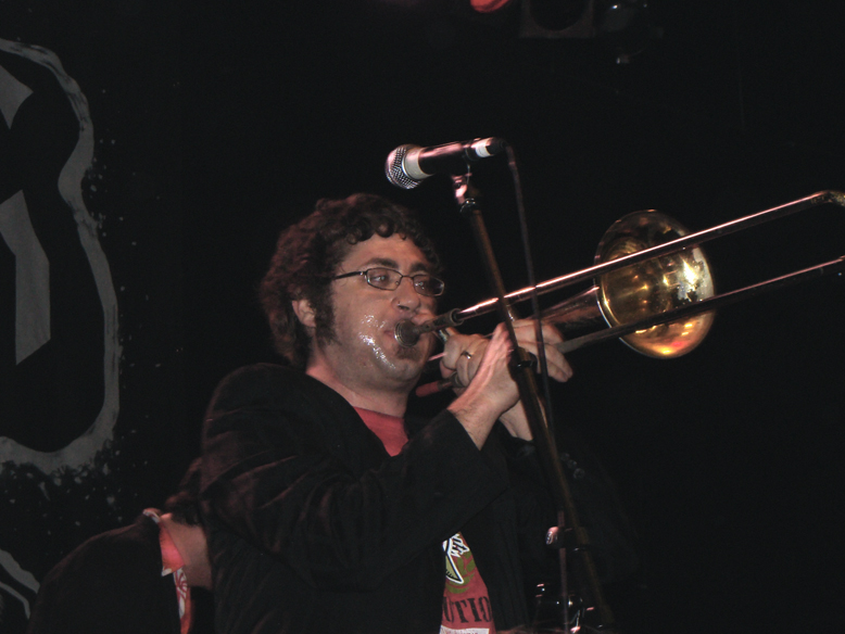 Dan Regan of Reel Big Fish performing at Carling Academy Newcastle in Newcastle upon Tyne, England on February 15, 2008.